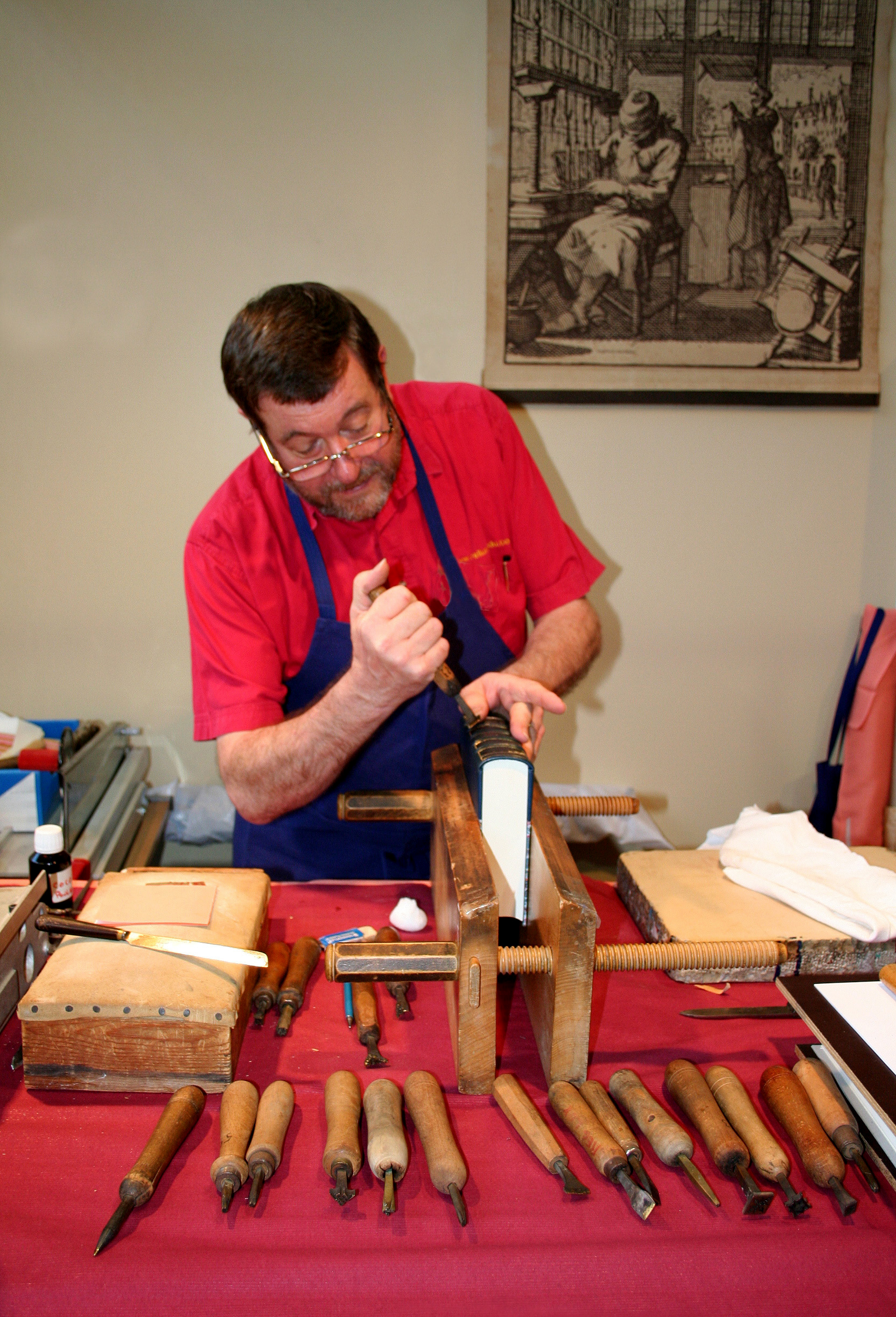 The bookbinder - Document published with the agreement of the photographed person (Roland Vander Heyden).